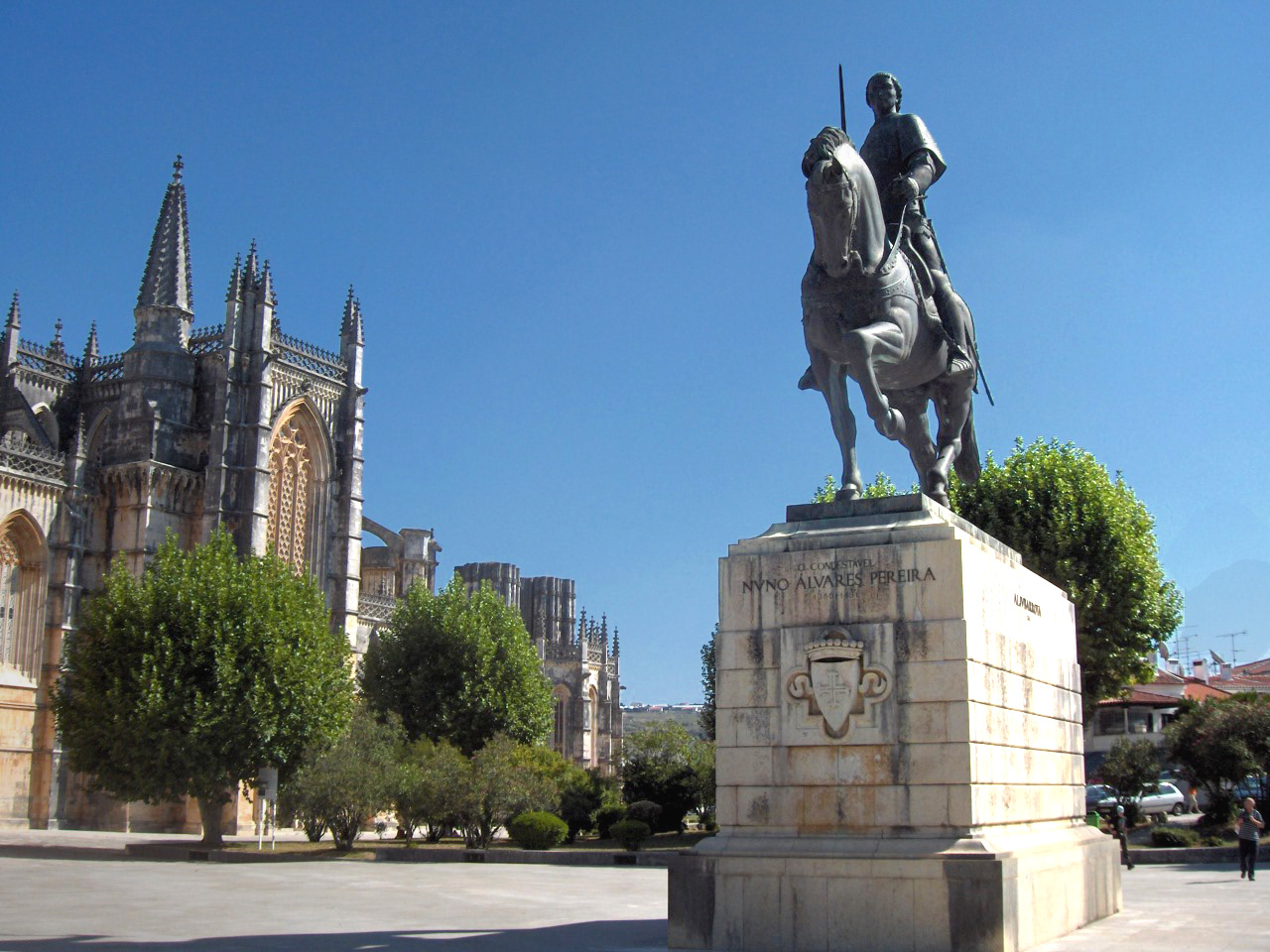 Equestrian statue of Nuno Alvares Pereira at the Monastery of Batalha, Portugal